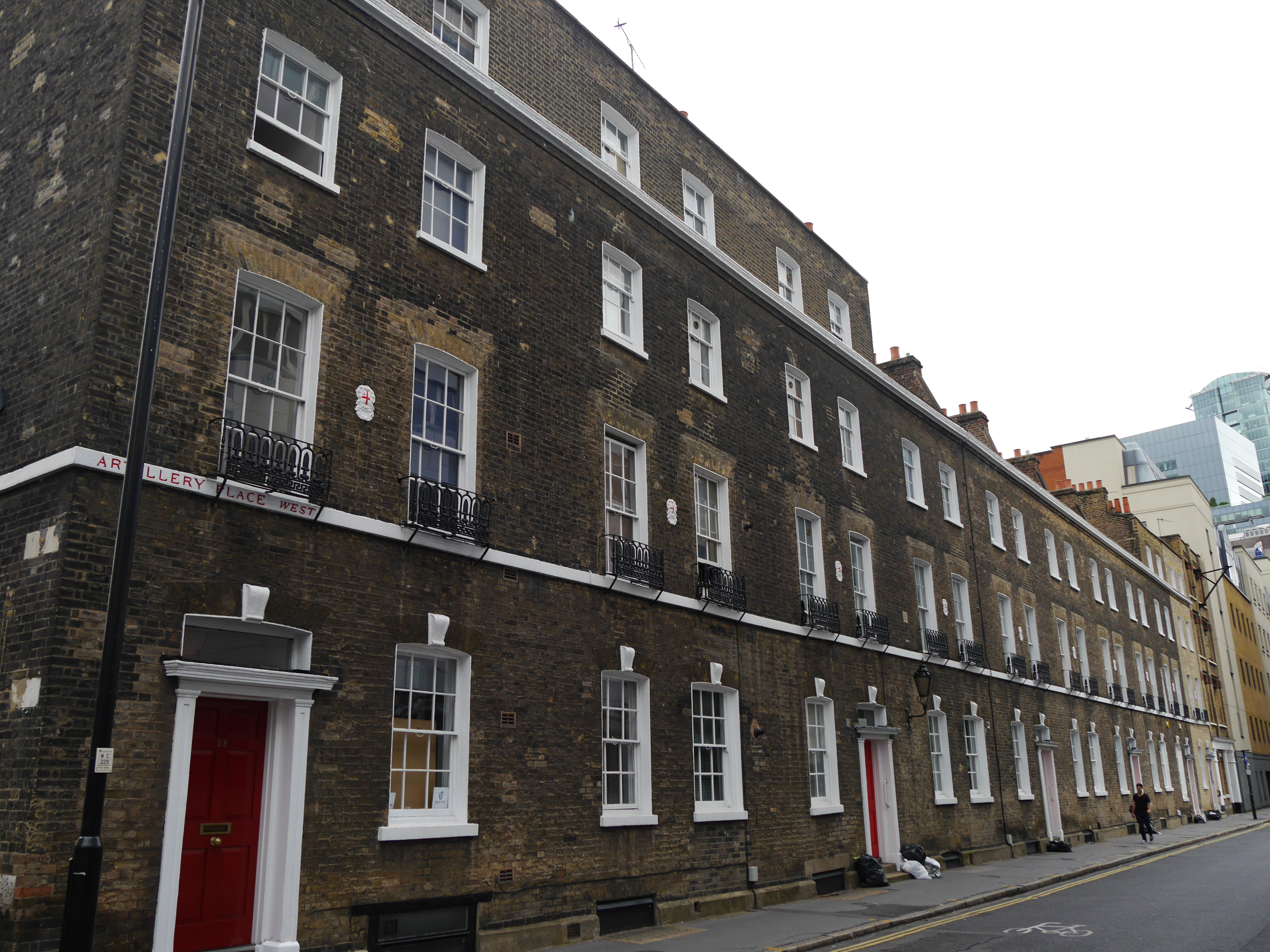 20-29 Bunhill Row, 2016